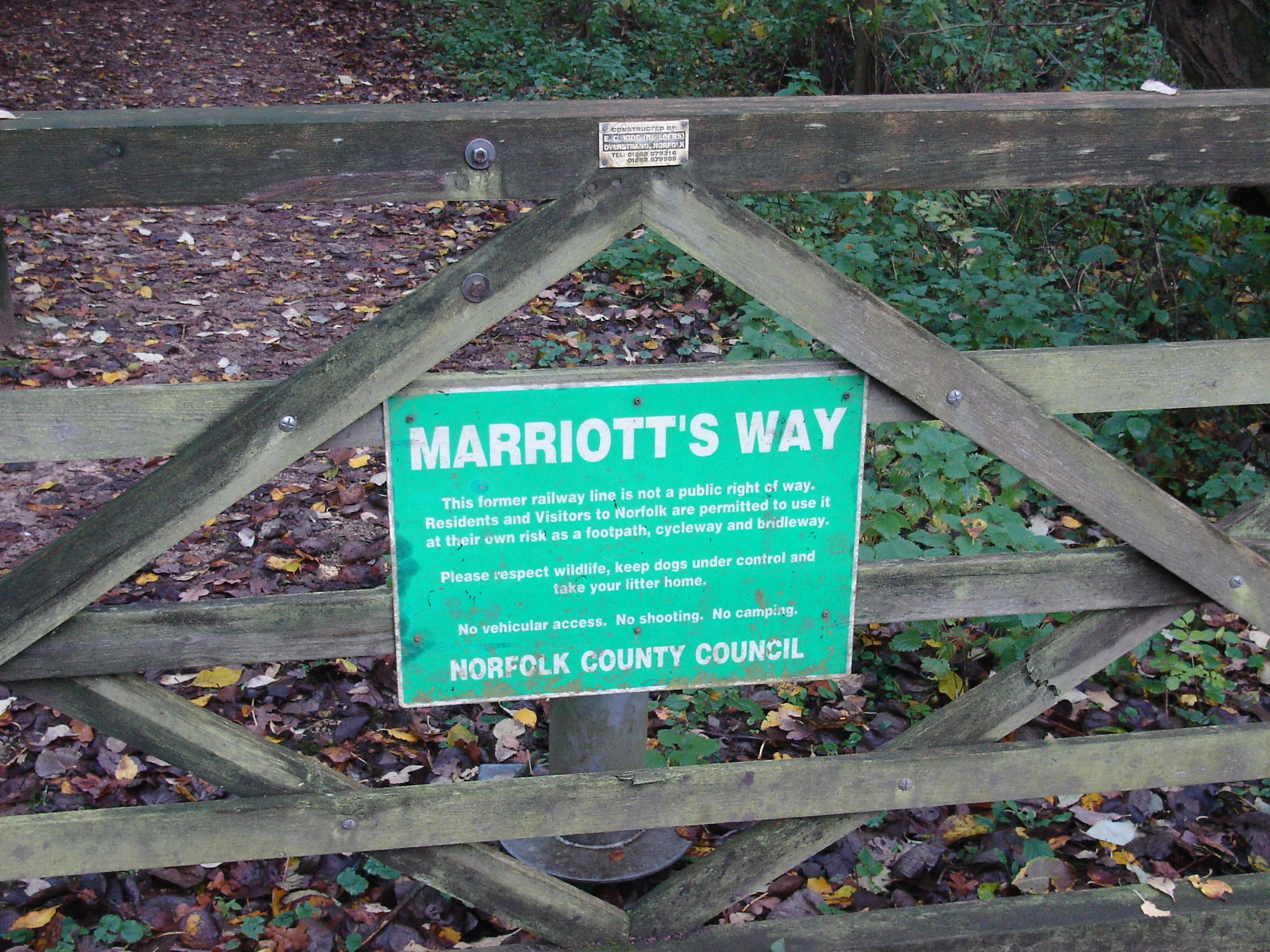 Picture of sign at Marriott's Way, Norfolk